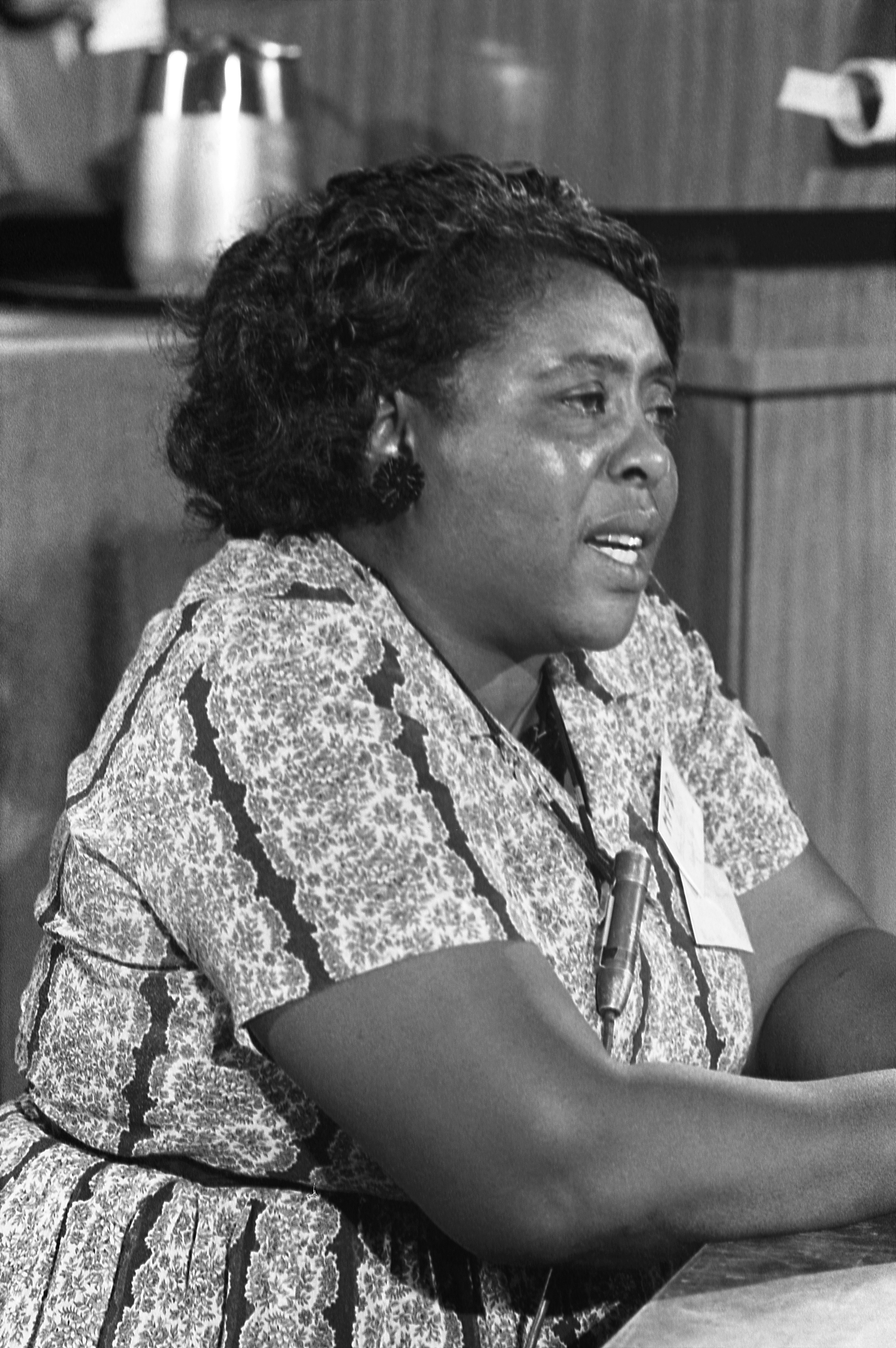 Fannie Lou Hamer, American civil rights leader, at the Democratic National Convention, Atlantic City, New Jersey, August 1964